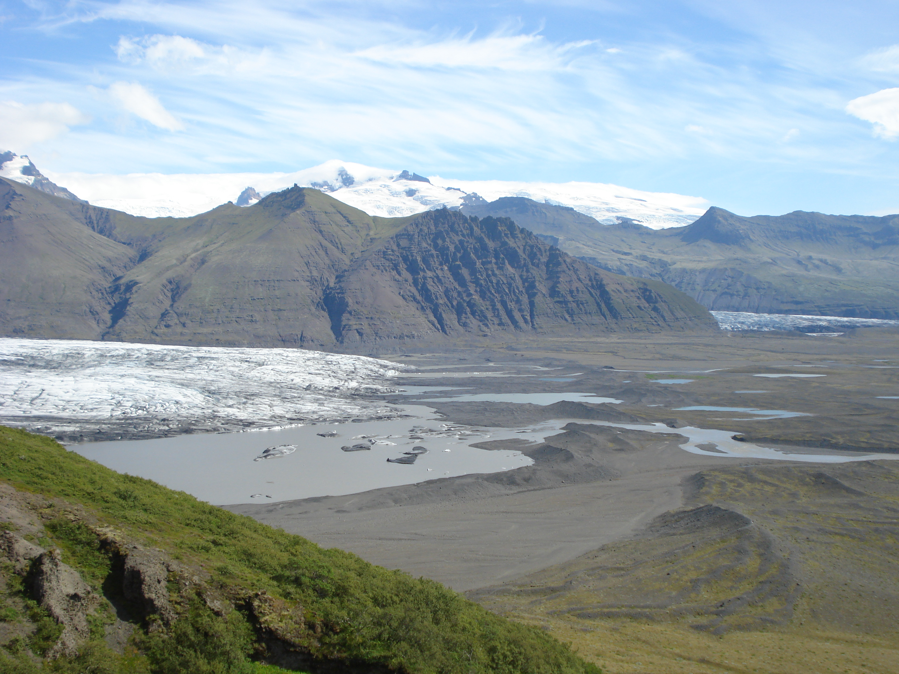 Looking from the Skaftafell National Park to the Hvannadalshnjúkur of the Öræfajökull. Skaftafellsjökull with its icelagoon in the front followed by the Svínafellsjökull at the right.